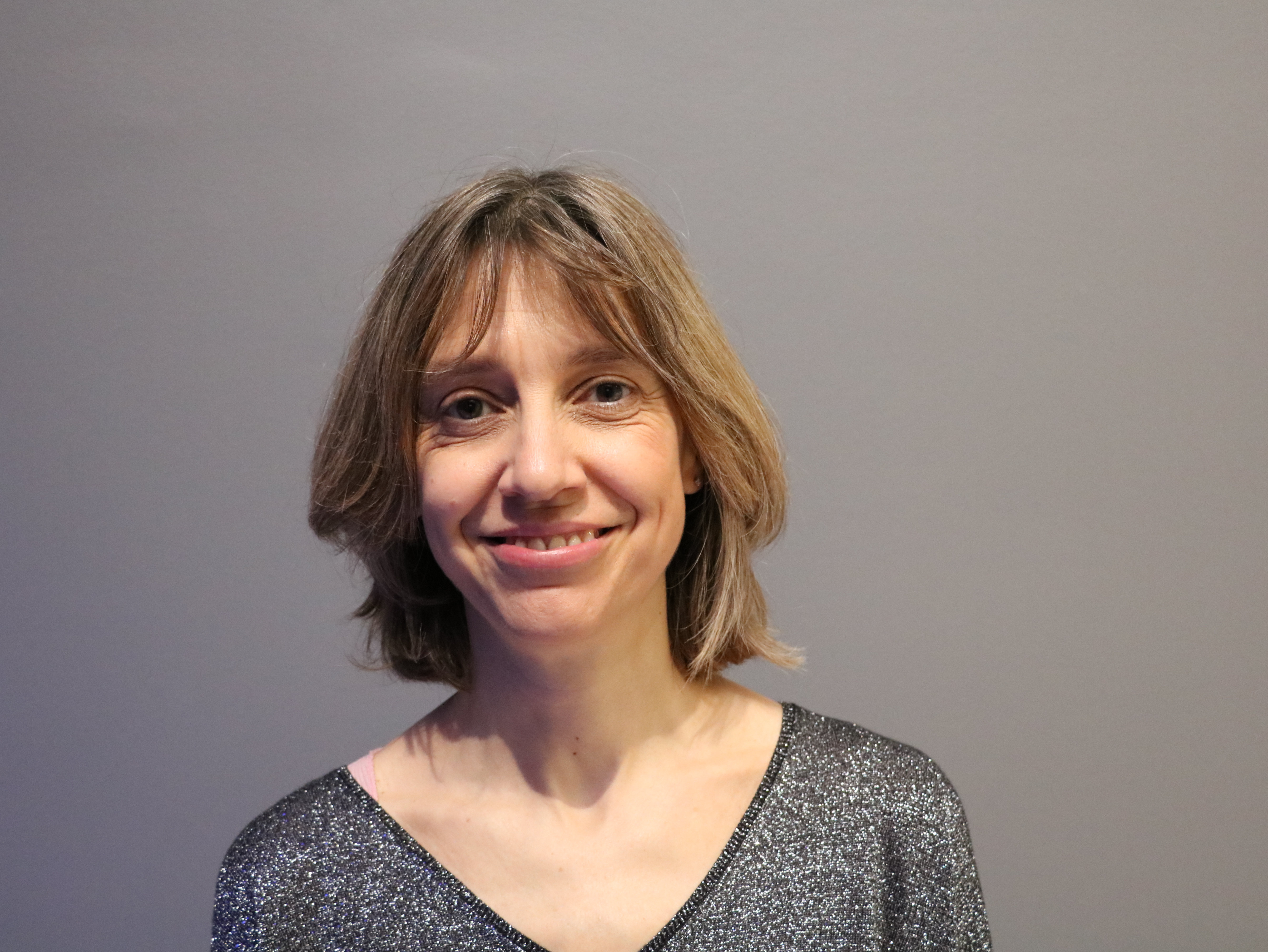 Claire Désert, pianist, February 3rd, 2017, Nantes.